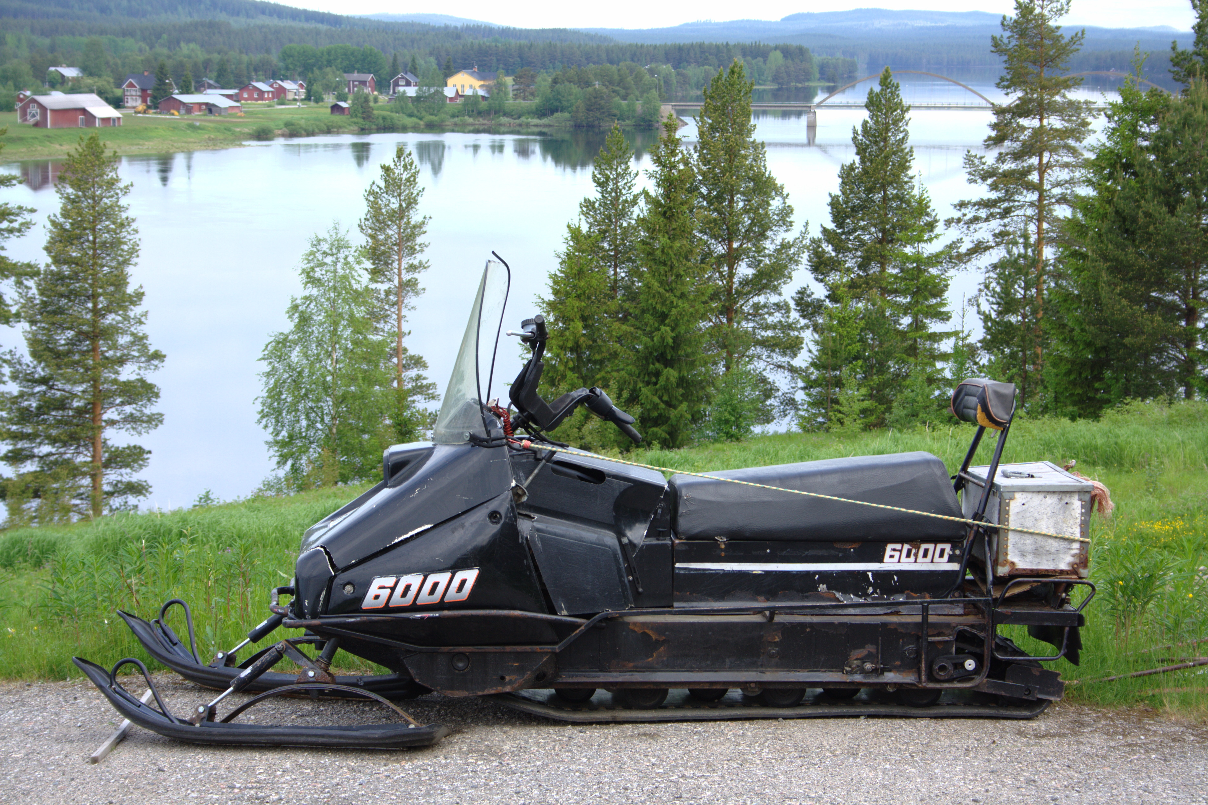 An Ockelbo 6000 at the Vindel River